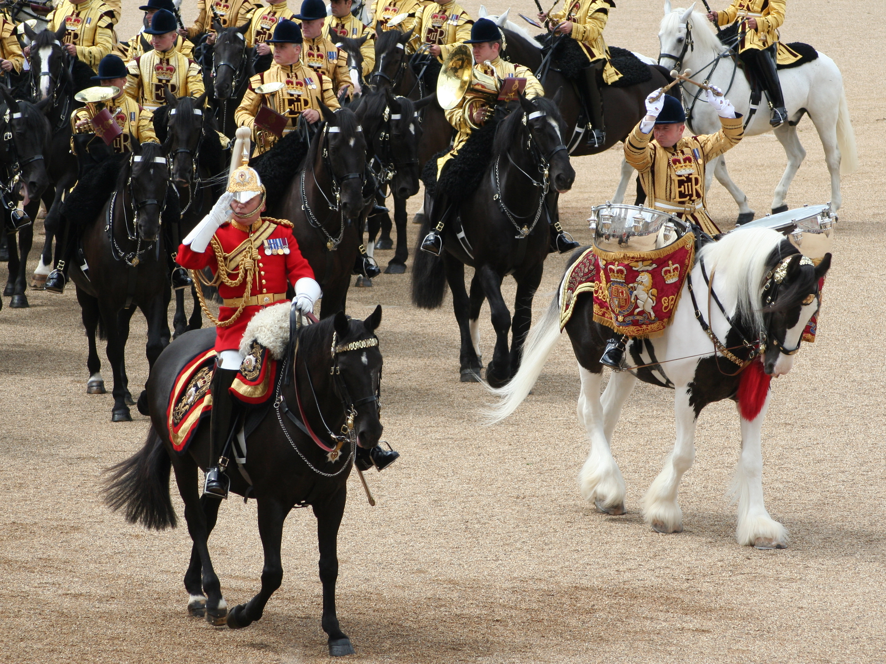 Massed Mounted Band Trooping the Colour